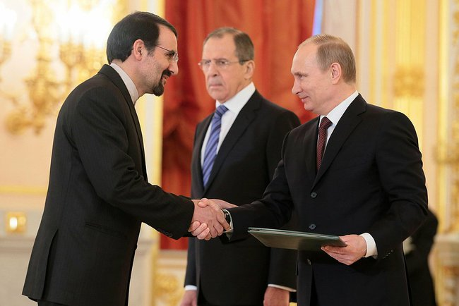 Presentation by foreign ambassadors of their letters of credence. With Ambassador of Islamic Republic of Iran Mehdi Sanai.